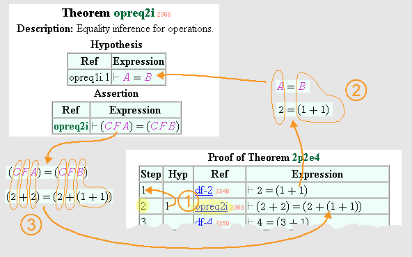 Metamath substitution mechanism